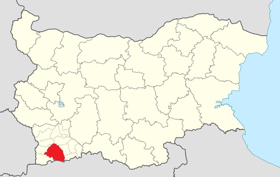 Location map of Sandanski Municipality within Bulgaria and Blagoevgrad province